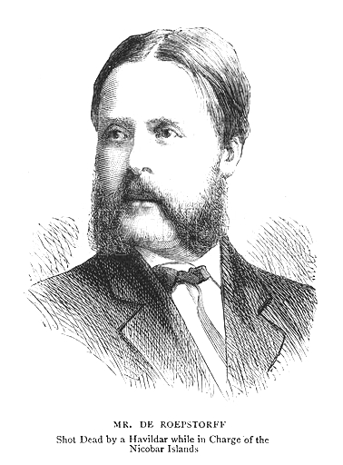 Mr de Roepstorff, Shot Dead by a Havildar while in Charge of the Nicobar Islands. Illustration for The Graphic, 17 May 1884.